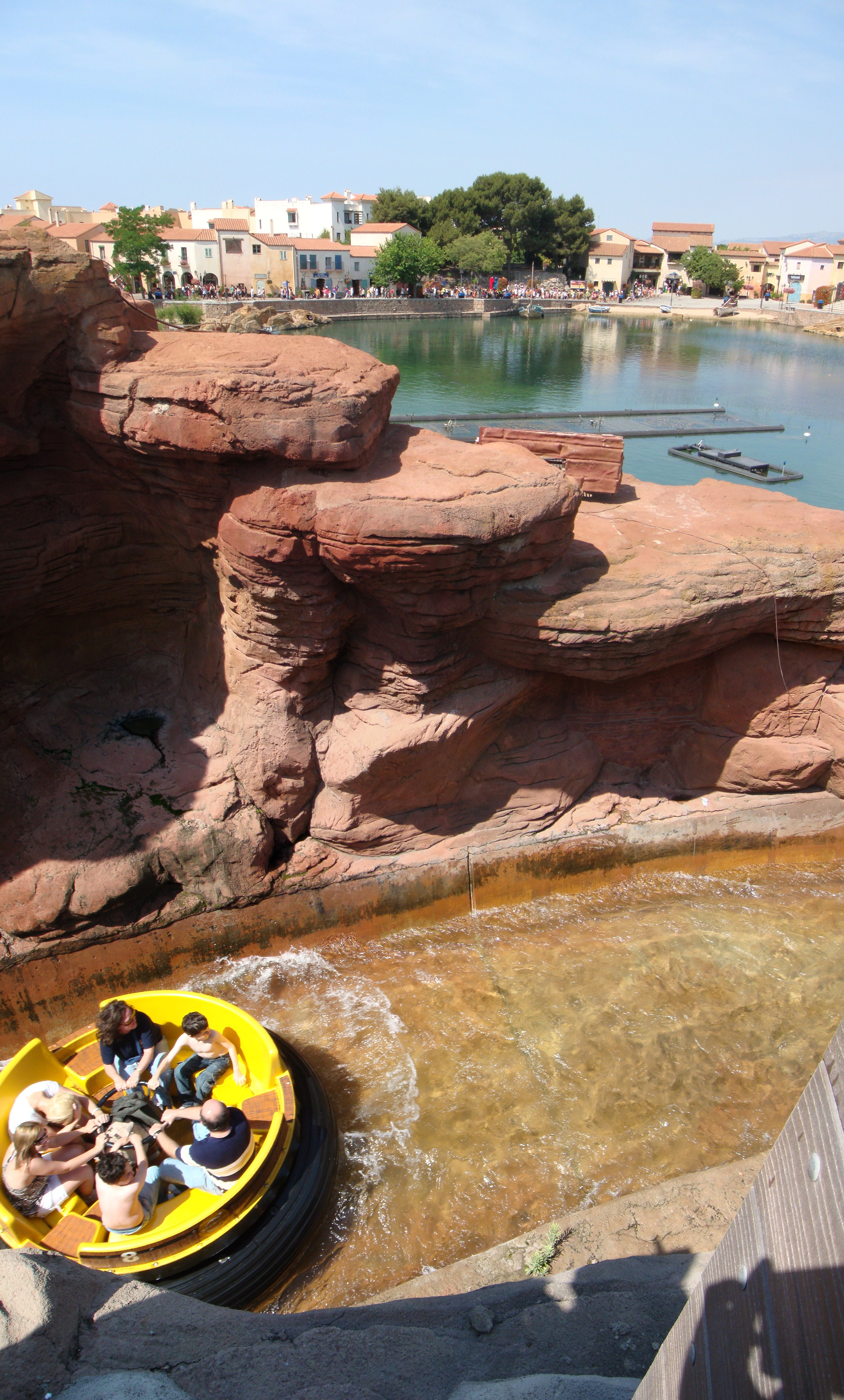 Grand Canyon Rapids in Port Aventura.